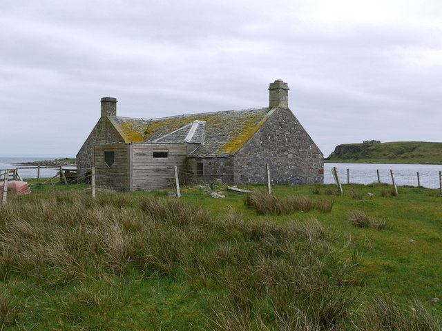 The Boathouse, Ardfin Claig Castle on Am Fraoch Eilean is visible to the right of the house. The boathouse became famous on 23 August 1994 when Bill Drummond and Jimmy Cauty, known then as the music group KLF, filmed themselves here burning £1 million in banknotes as an artistic stunt. K_Foundation_Burn_a_Million_Quid Drummond said later "Of course I regret it - who wouldn't!"